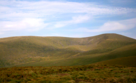 Peak of Lugnaquilla, from Camara Hill, County Wicklow, Ireland